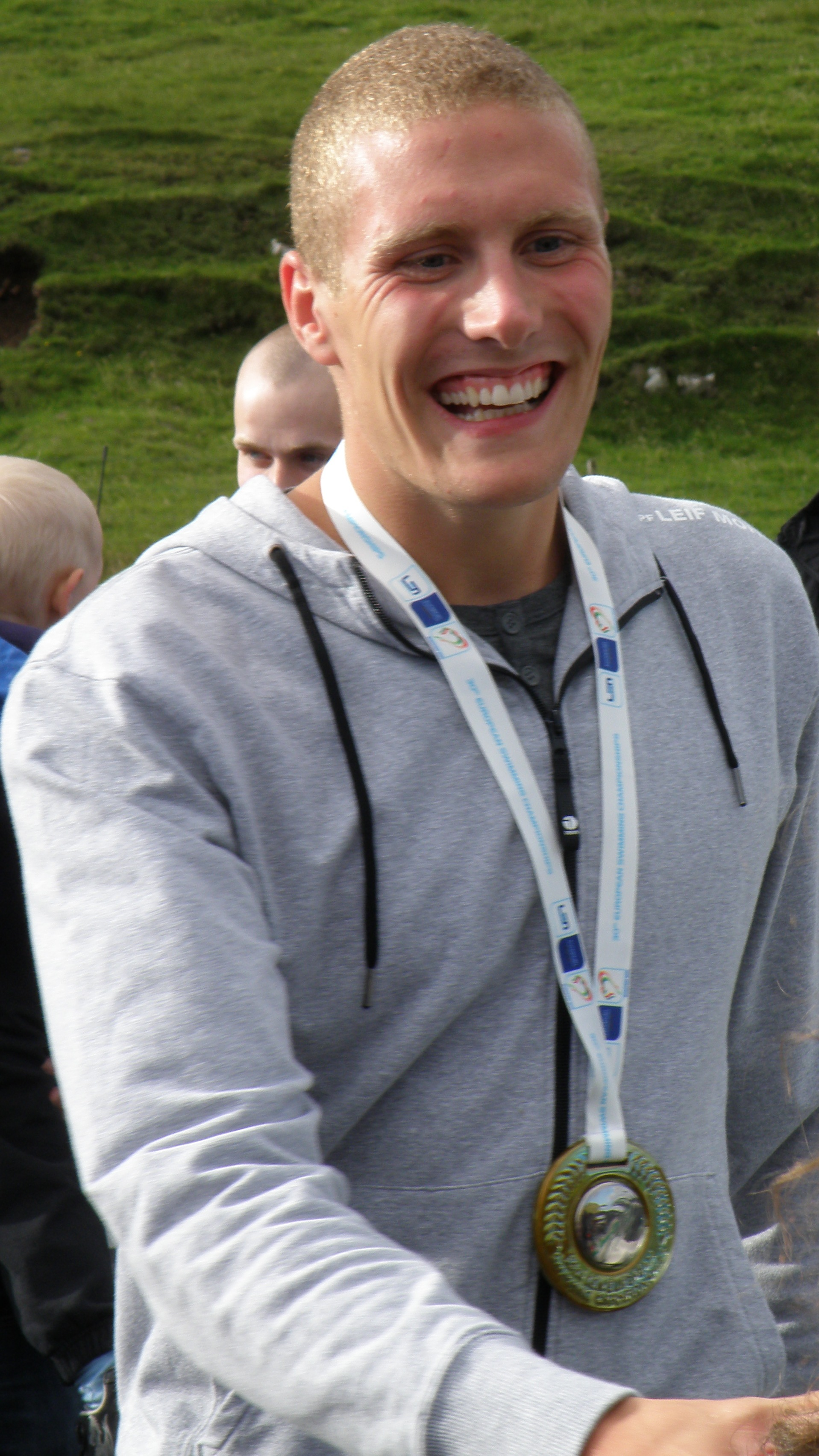 Pál Joensen is the best Faroese swimmer until now (2010). He has gained incredible results, despite the fact that he must train in a 25m swimming pool, because there is no 50 meter pool in his country, the Faroe Islands. He won silver in 1500 m Freestyle at the European Swimming Championships 2010 in Budapest. Before that he won gold in the FINA World Cup 2009 in Moscow and silver in the FINA World Cup 2009 in Stockholm and in the FINA World Cup 2009 in Berlin. In 2008 Pál Joensen won three gold medals at the European Junior Swimming Championship 2008 in 1500m, 800m and 400m Freestyle. At the Island Games 2009 in Åland Islands, Finland, he won 6 gold medals and sat Faroese records. He hold the Nordic Record in the men's 1500m Freestyle on long course. This photo was taken in Vágur, his hometown with 1350 inhabitants in the island Suðuroy (the southernmost of the 18 islands of the Faroes). I took this photo when he came back after winning silver in Budapest. There was a welcome party for him in Tórshavn and in Vágur. Føroyskt: Pál Joensen er føroya besti svimjari. Hann vann silvur í 1500 m frí til Europameistara kappingina í Budapest 2010 (European Swimming Championships) á langbana. Hann svam við tíðini 14:56.90, sum var nýtt norðurlendskt met. Pál hevur fleiri ferðir fyrr víst sera góð úrslit, eitt nú vann hann 3 gull heiðursmerki á EM fyri juniorar í 2008, hann í 1500m, 800m og 400m frí. Í 2009 vann hann gull til World Cup í Moskva í 1500m frí á stuttbana, og silvur á sama teini til World Cup í Berlin og Stokkhólmi. Pál vann 6 gull heiðursmerki til Oyggjaleikirnir á Álandi í 2009. Henda myndin varð tikin vesturi á Eiðinum í Vági, tá Pál kom heimaftur eftir at hann gjørdist næstskjótasti europearin í 1500 metrum frí. Móttøka var fyri honum bæði í Vági og í Havn sama dag.